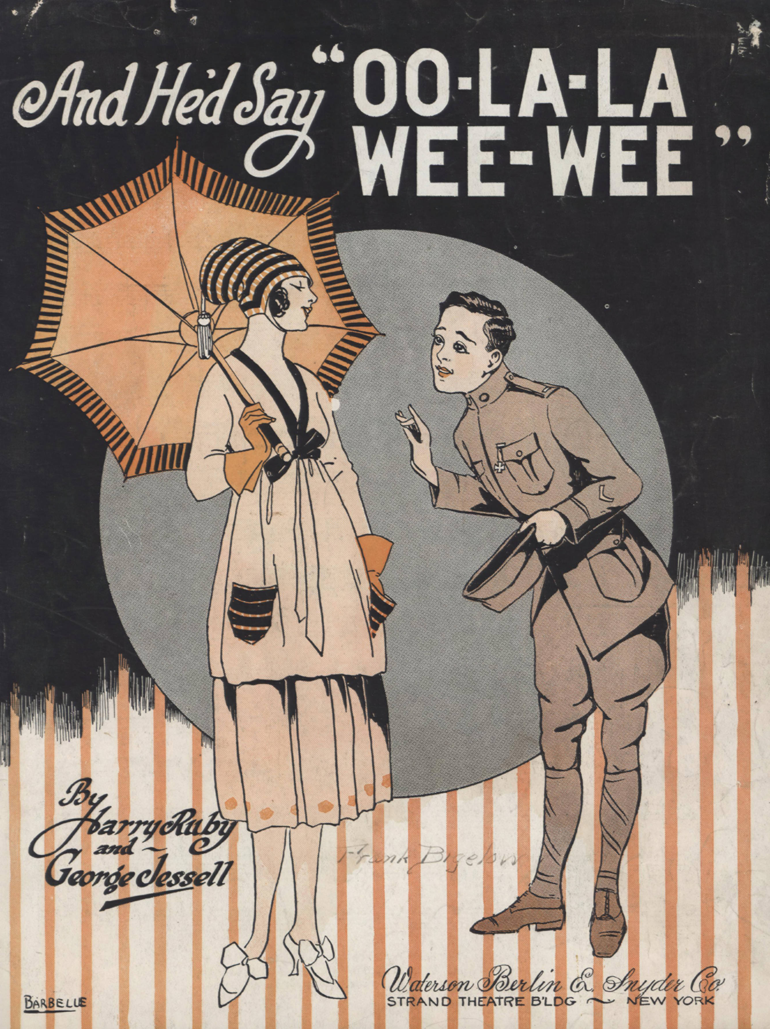 sheet music cover 1st edition